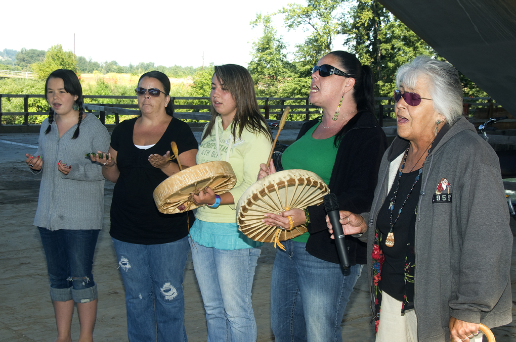 Esther Stutzman leads her daugthers in a Kalapuya welcome song.